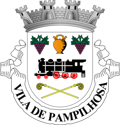 Pampilhosa's Coat of Arms